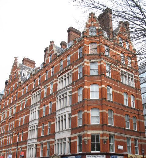 Churston Mansions, Gray's Inn Road, WC1 (2). Shows the location of 1237103.